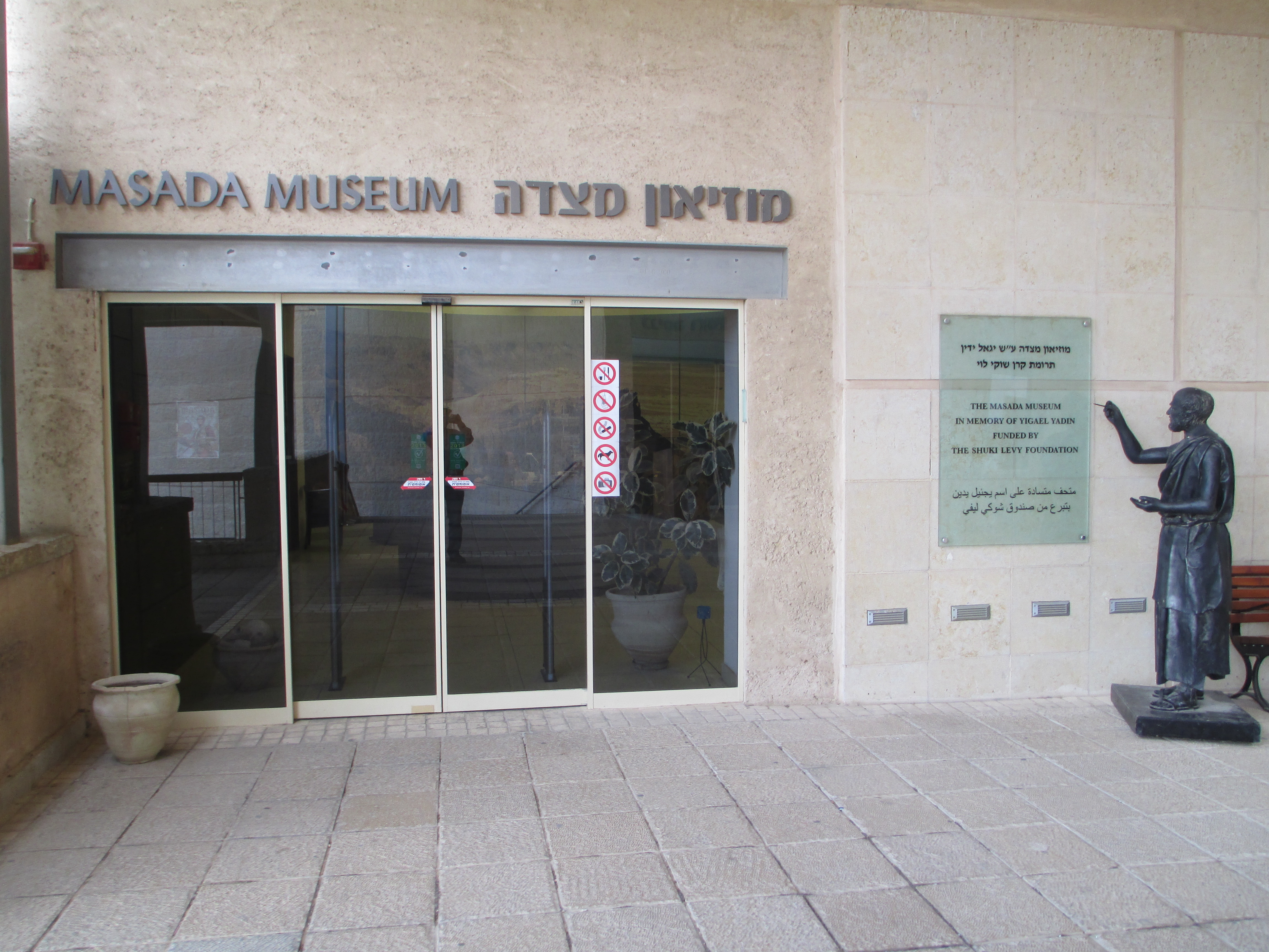 Masada Museum